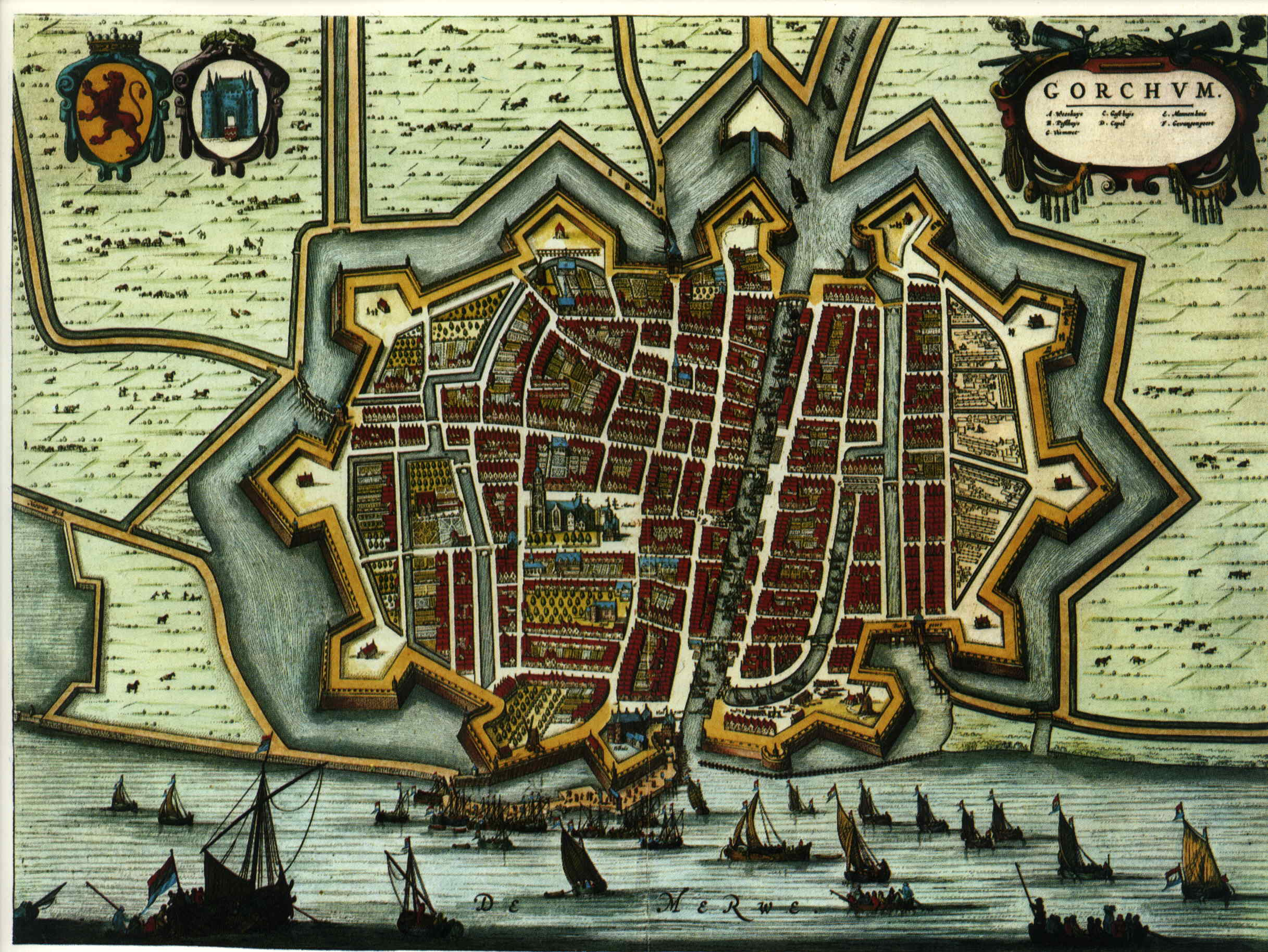 Gorkum from"Blaeu's Toonneel der Steden"(Dutch city maps, Edited by Willem and Joan Blaeu), 1652.